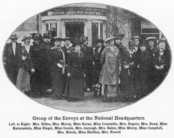 Group of the Envoys at the National Headquarters Left to Right: Mrs. Hillies, Mrs. Morey, Miss Burns, Miss Constable, Mrs. Rogers, Mrs. Read, Miss Katezenstein, Miss Riegel, Miss Goode, Mrs. Ascough, Mrs. Baker, Miss Morey, Miss Campbell, Mrs. Blatch, Miss Hurlbut, Mrs. Newell